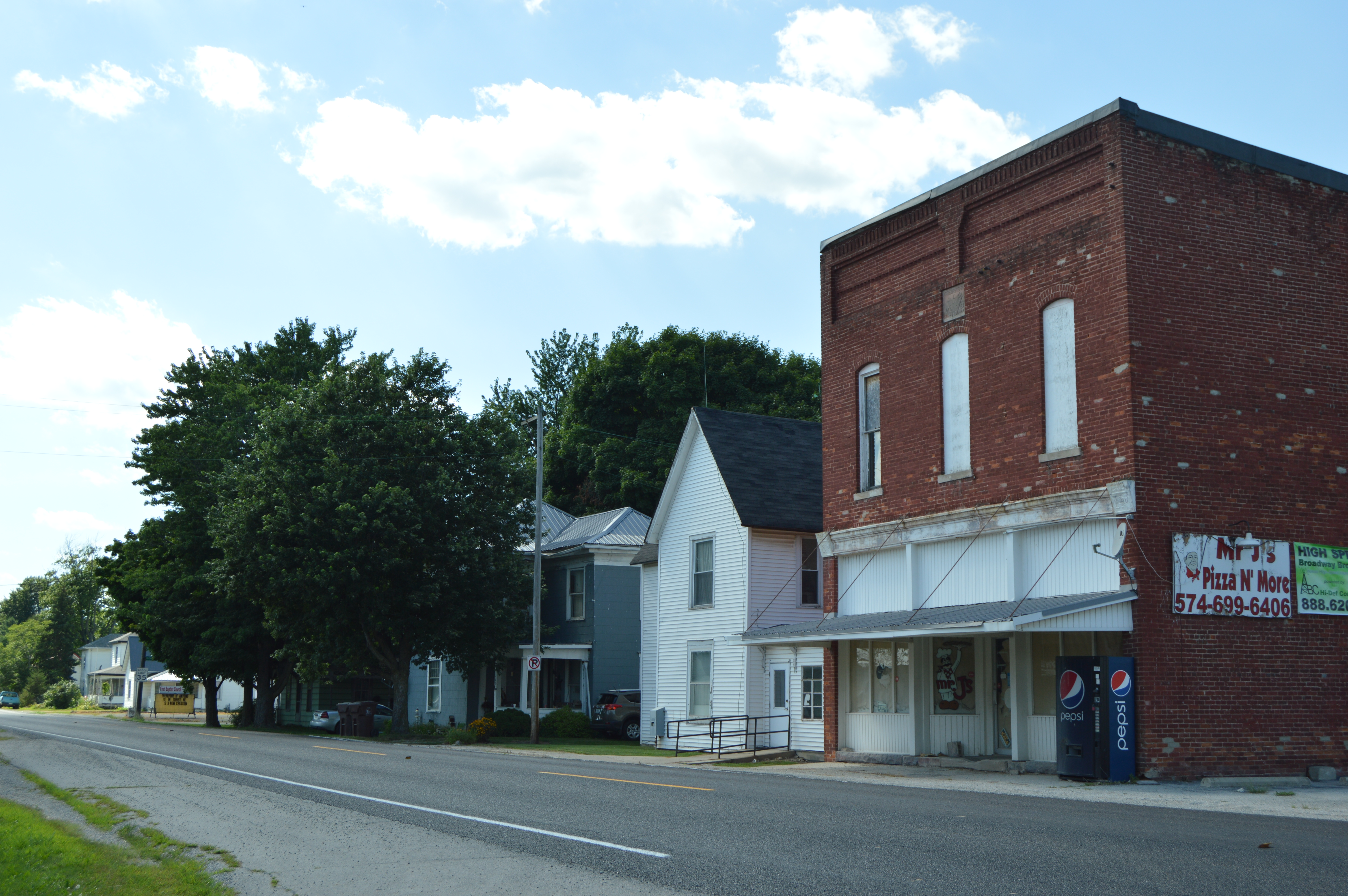 Looking westward on State Road 18 from the S150E intersection in Young America, Indiana, United States.